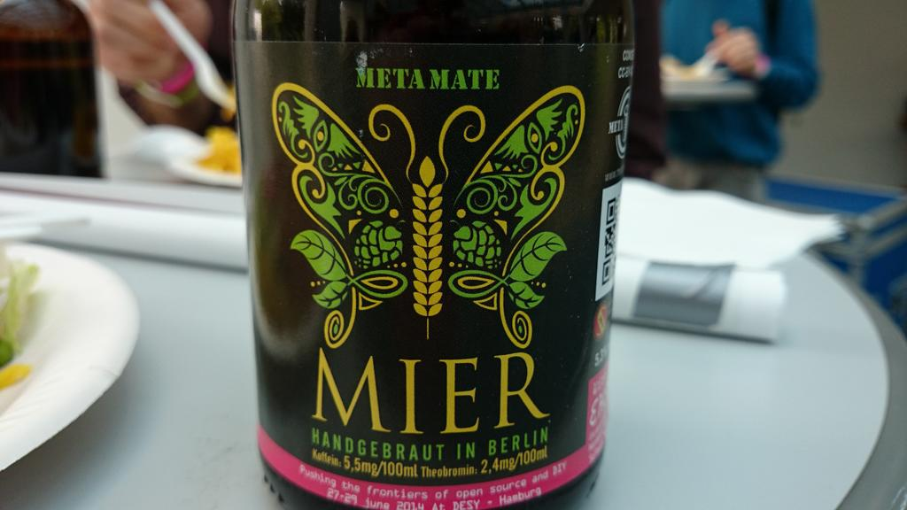 Beer_and_mate